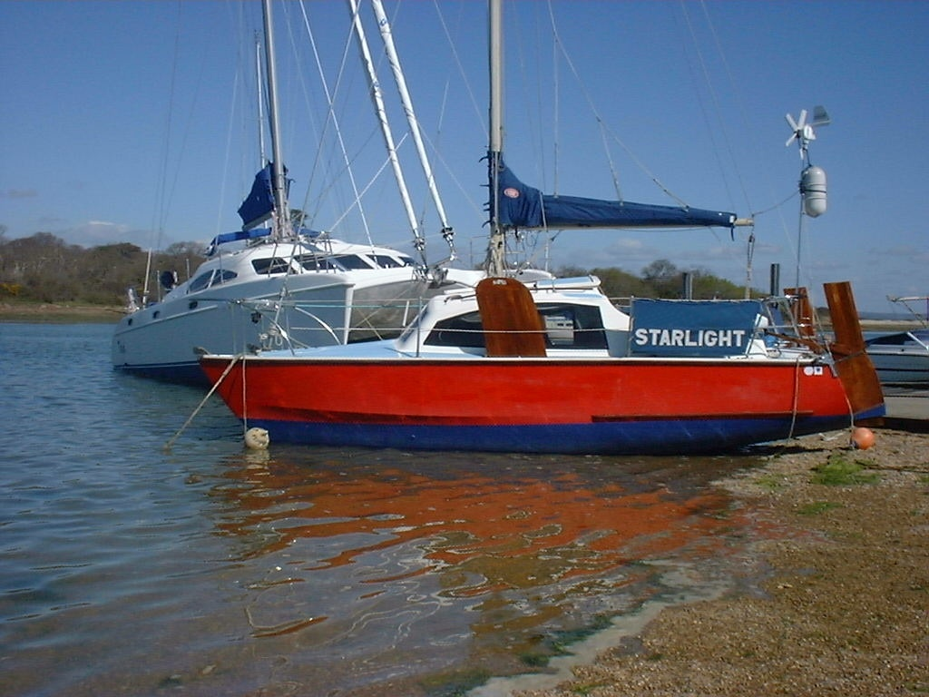 Author: Me